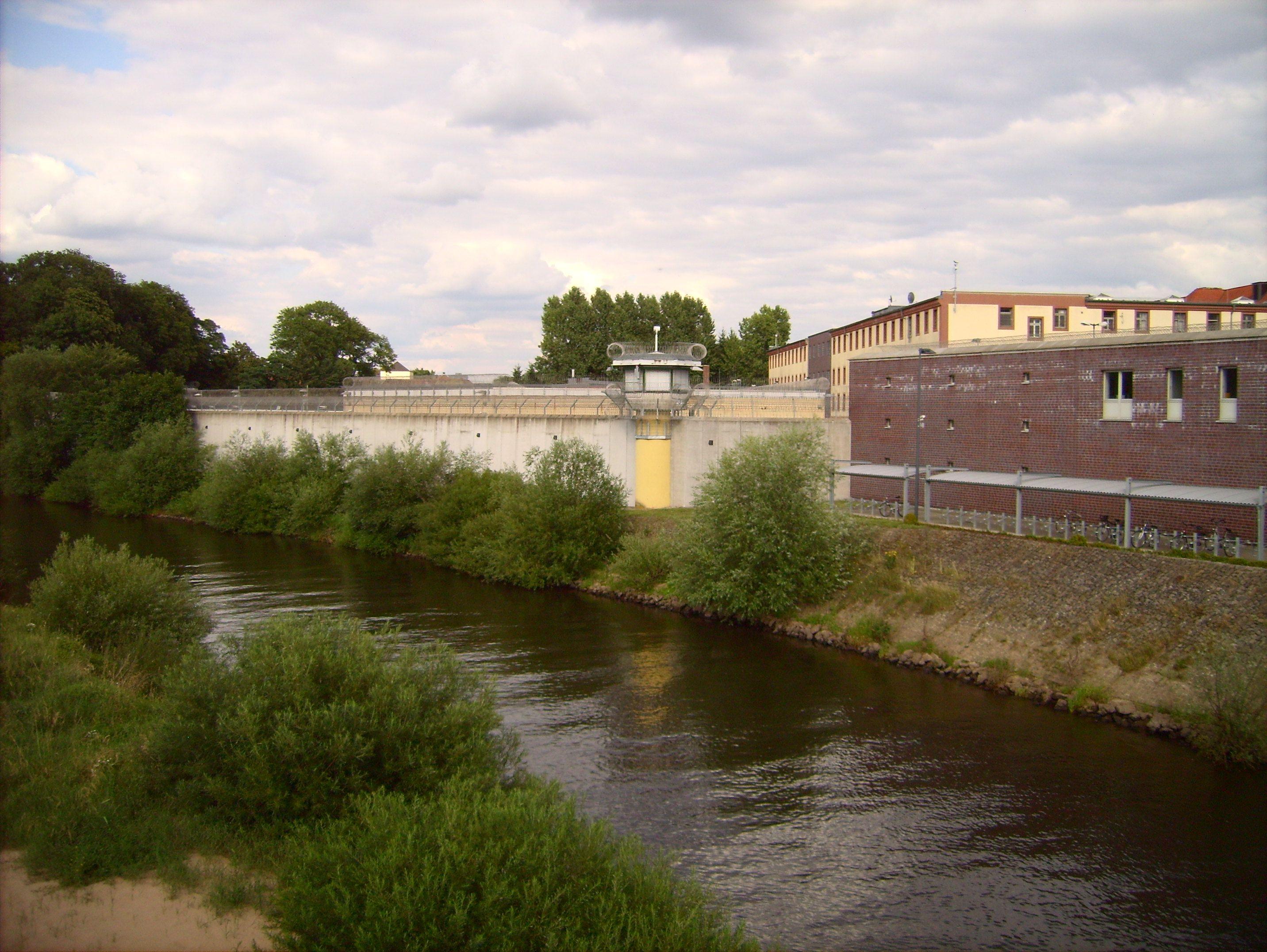 The JVA Celle is a correctional facility in Celle (Germany)-outer wall of the prison behind the river Aller